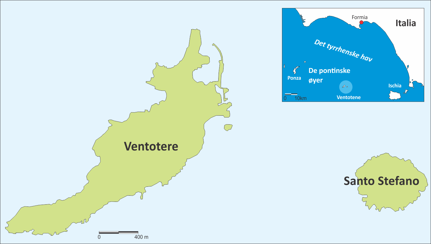 Location map of Ventotene, related to the mainland and sorrounding islands. Norwegian language, but should be useful for others as well